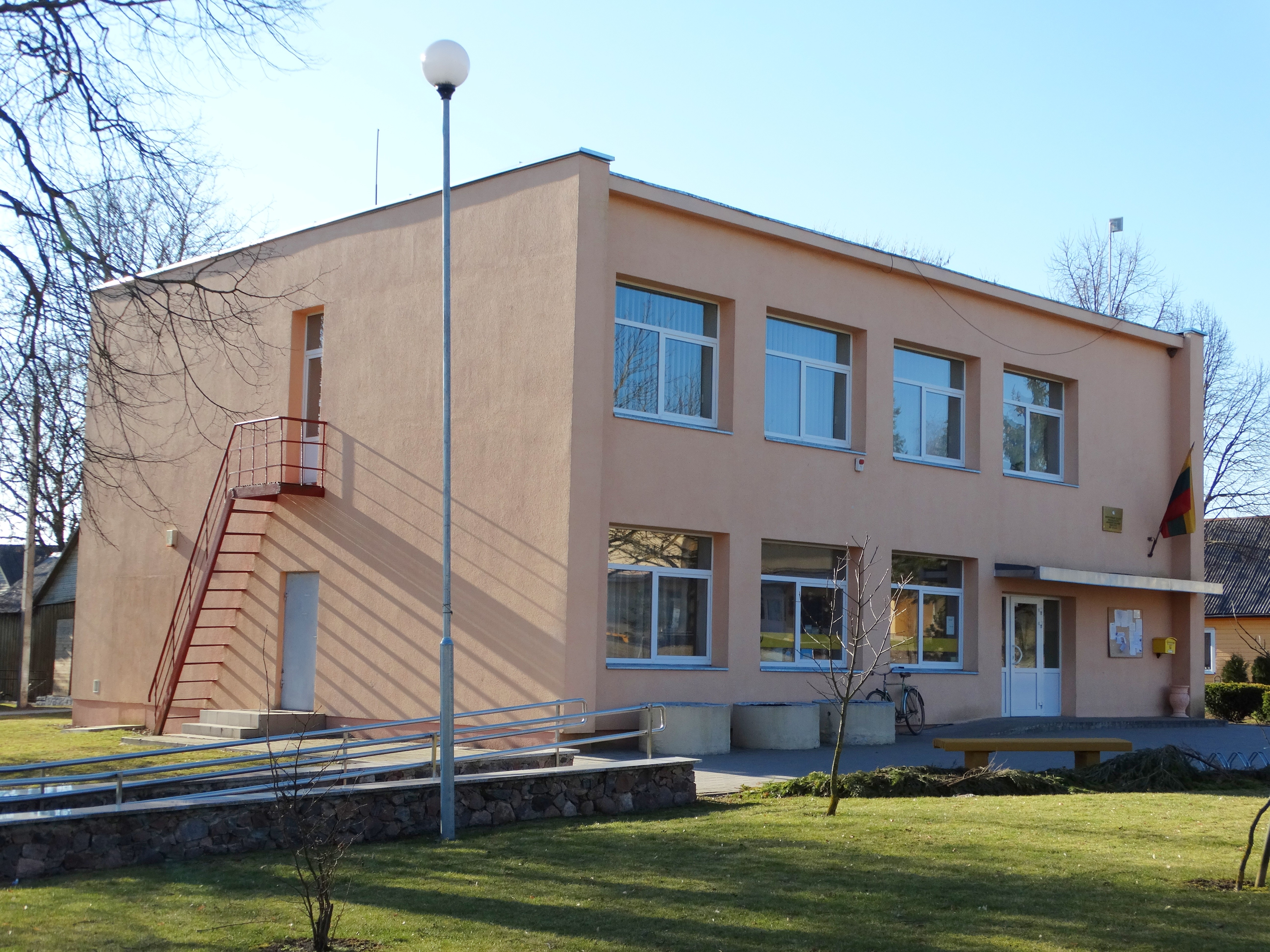 Eldership, Šiaulėnai, Radviliškis District, Lithuania